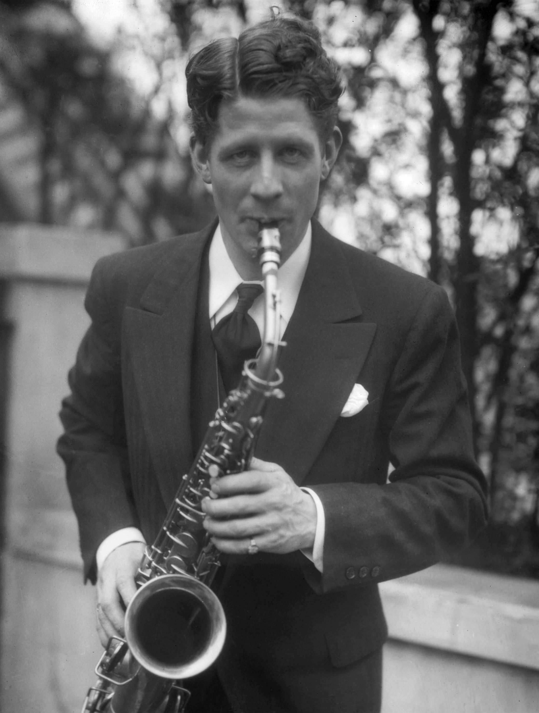 Rudy Vallee playing the saxophone